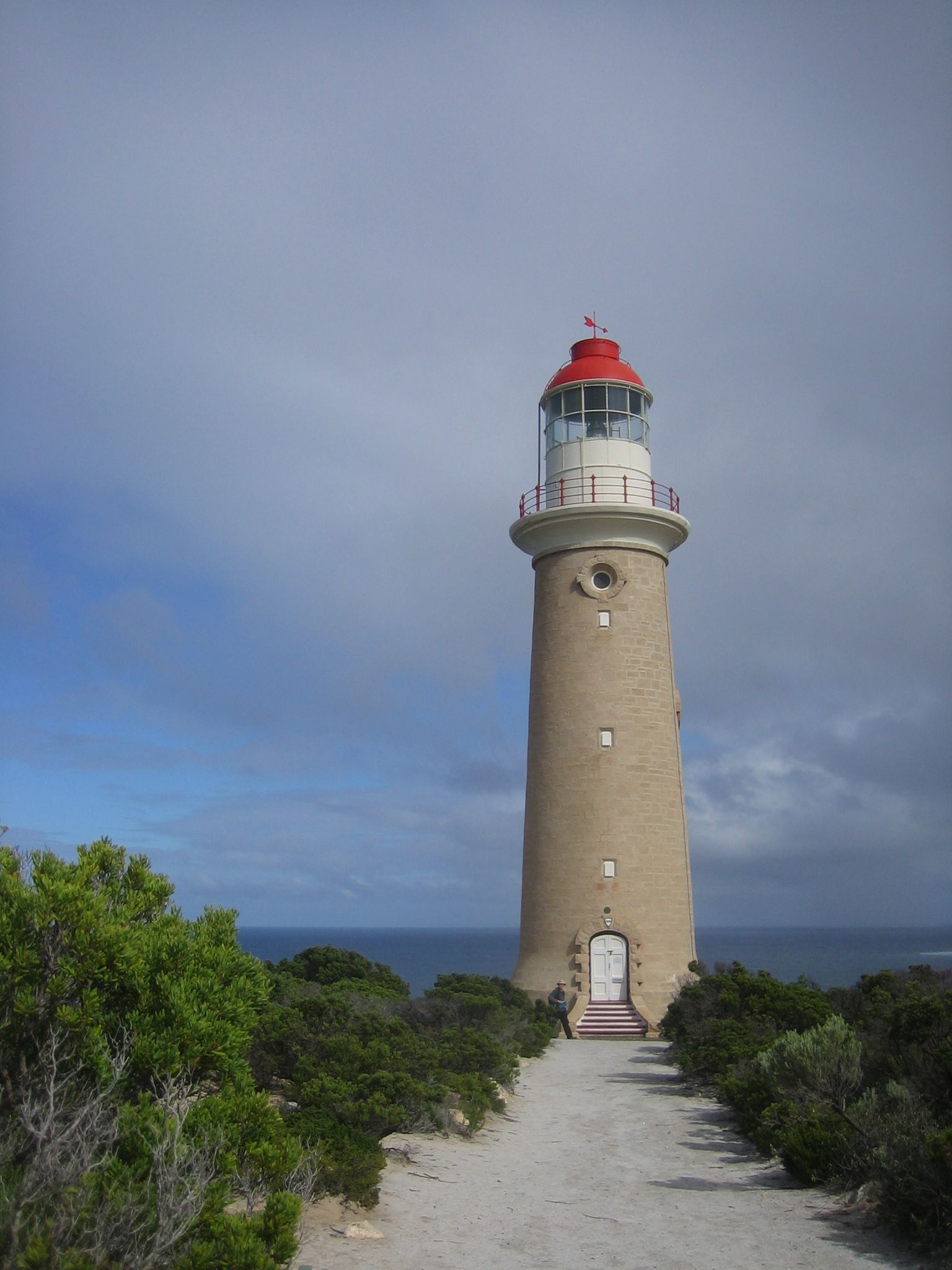 Phare de Cap Couedic, Kangaroo Island, Australie